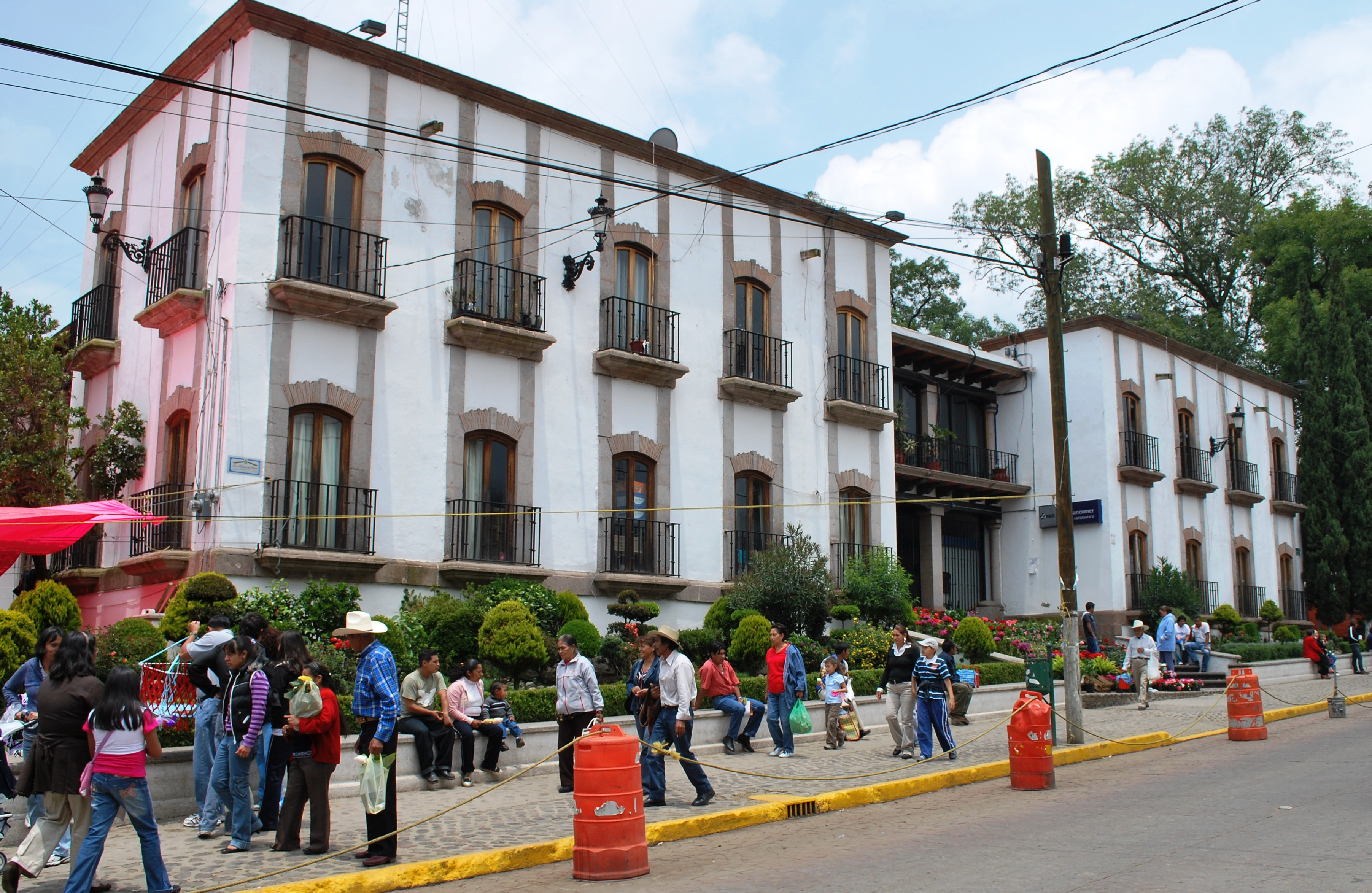 Municipal Palace of Villa del Carbón, Mexico State, Mexico